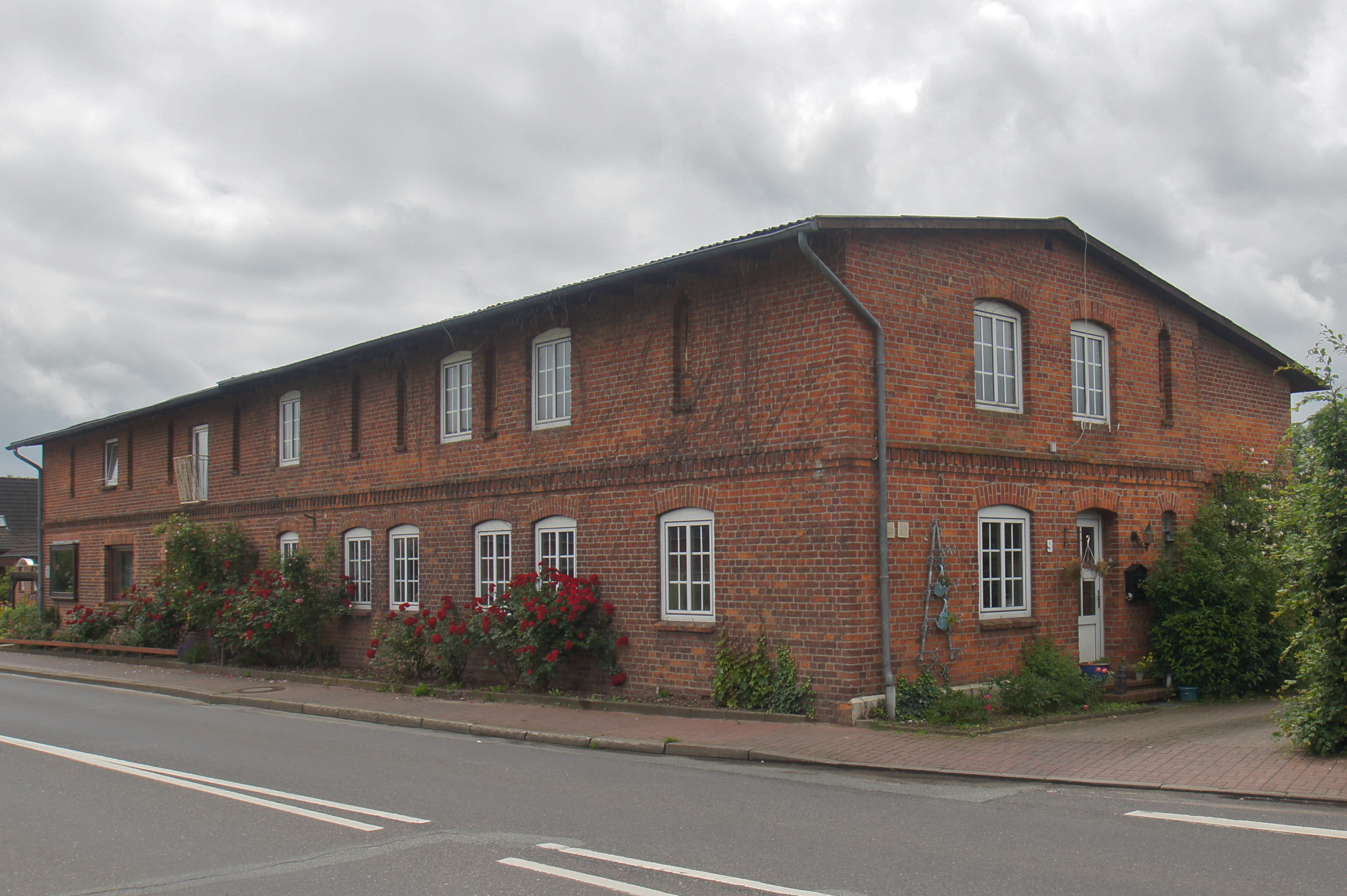 Seedorf (Berlin), Germany: Fire Station at the Potsdamer Straße